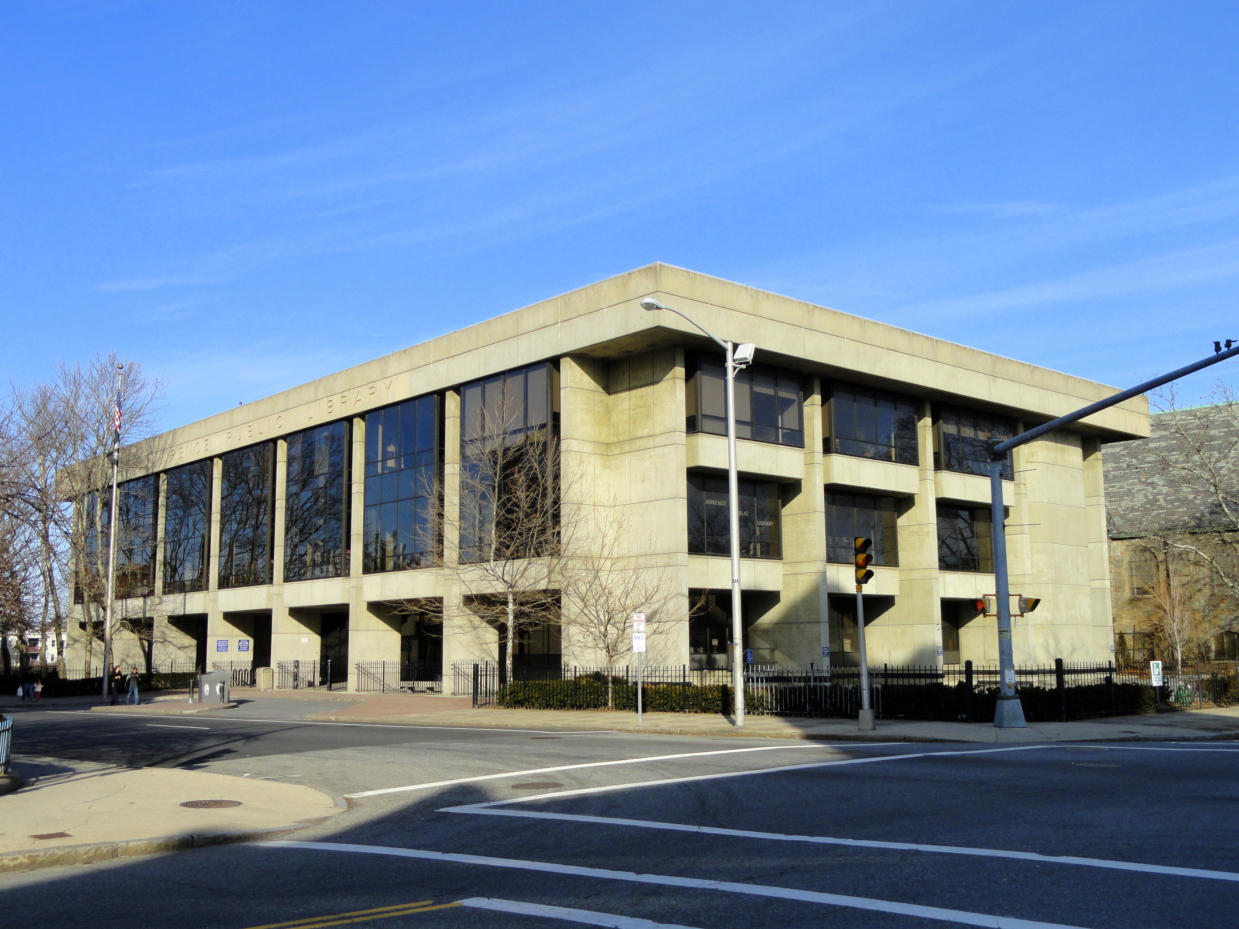 Building on Compagnone Common, in Lawrence, Massachusetts, USA.